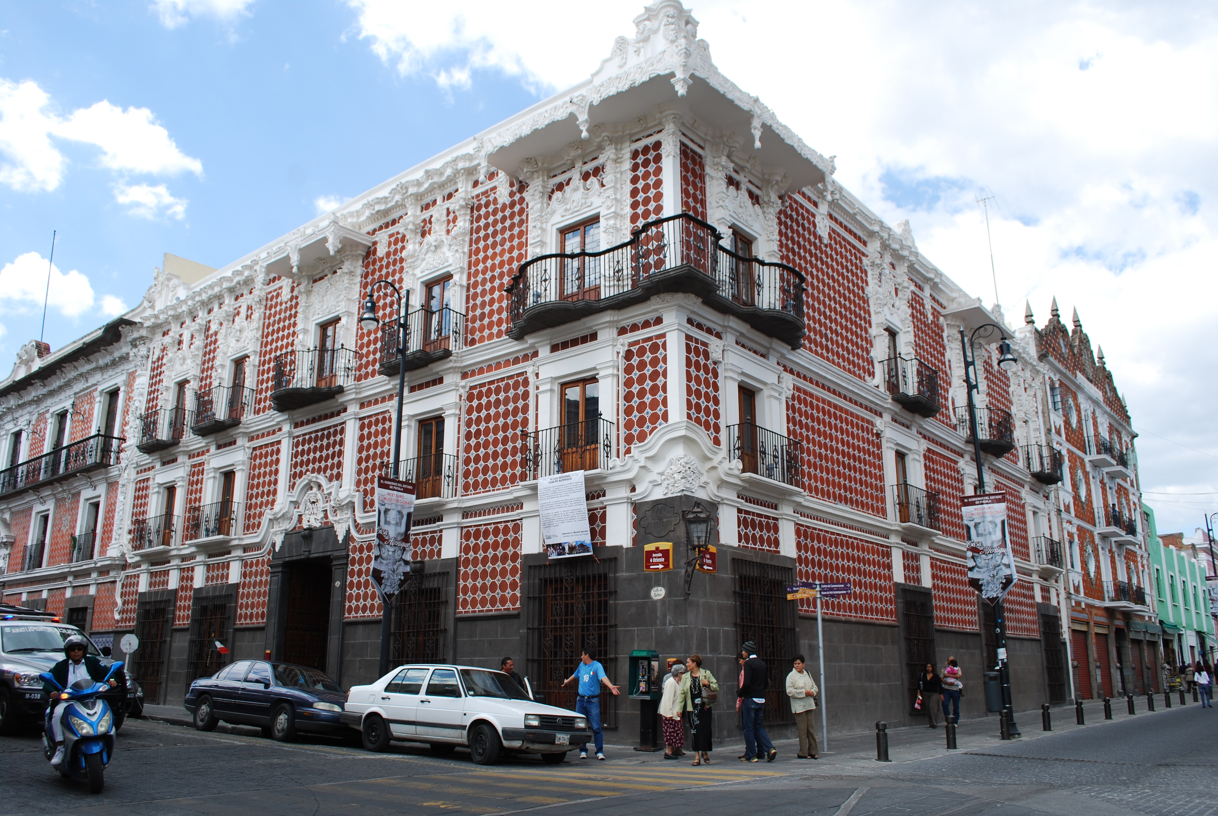 Casa de Alfeñique in the historic center of Puebla, Mexico